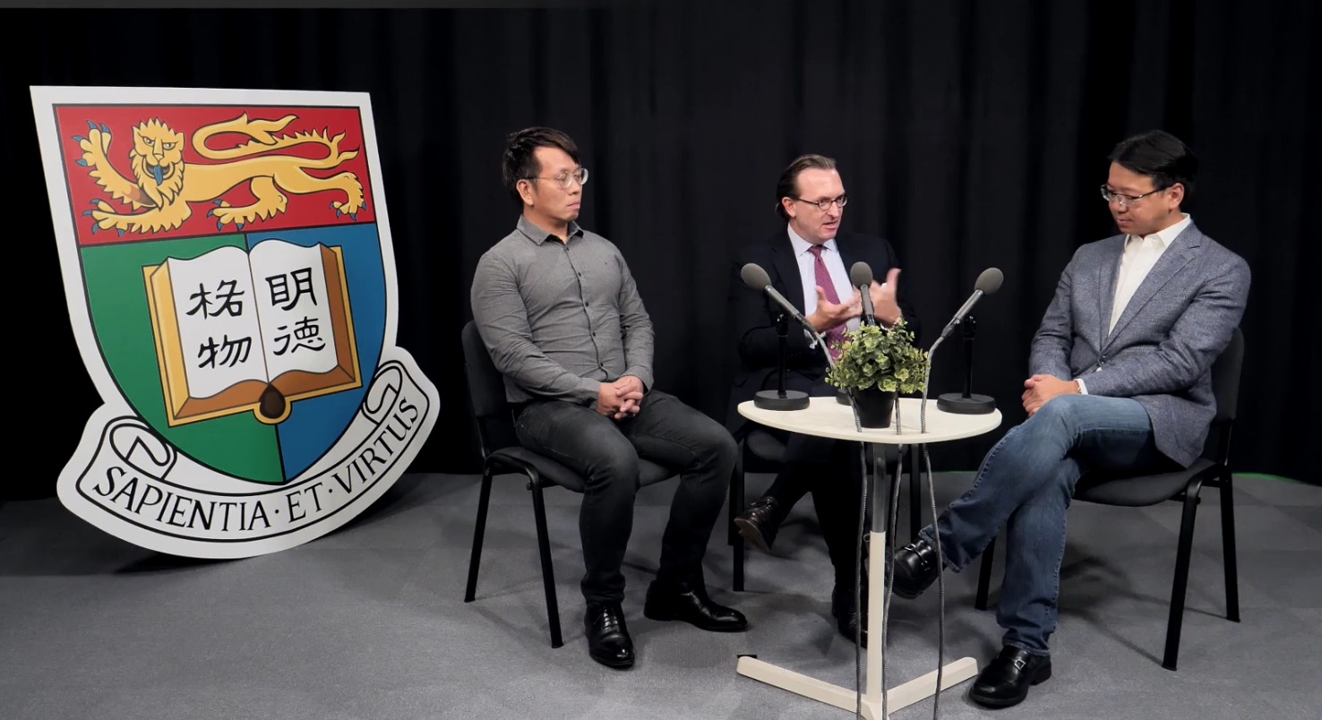 Professor Douglas Arner, the Kerry Holdings Professor in Law at the University of Hong Kong and Co-founder of AIIFL interviews Charles Mok, Hong Kong-based Internet entrepreneur and IT advocate who represents the Information Technology functional constituency on the Hong Kong Legislative Council, on “What are the next big opportunities in FinTech” as part of the “Introduction to FinTech”.